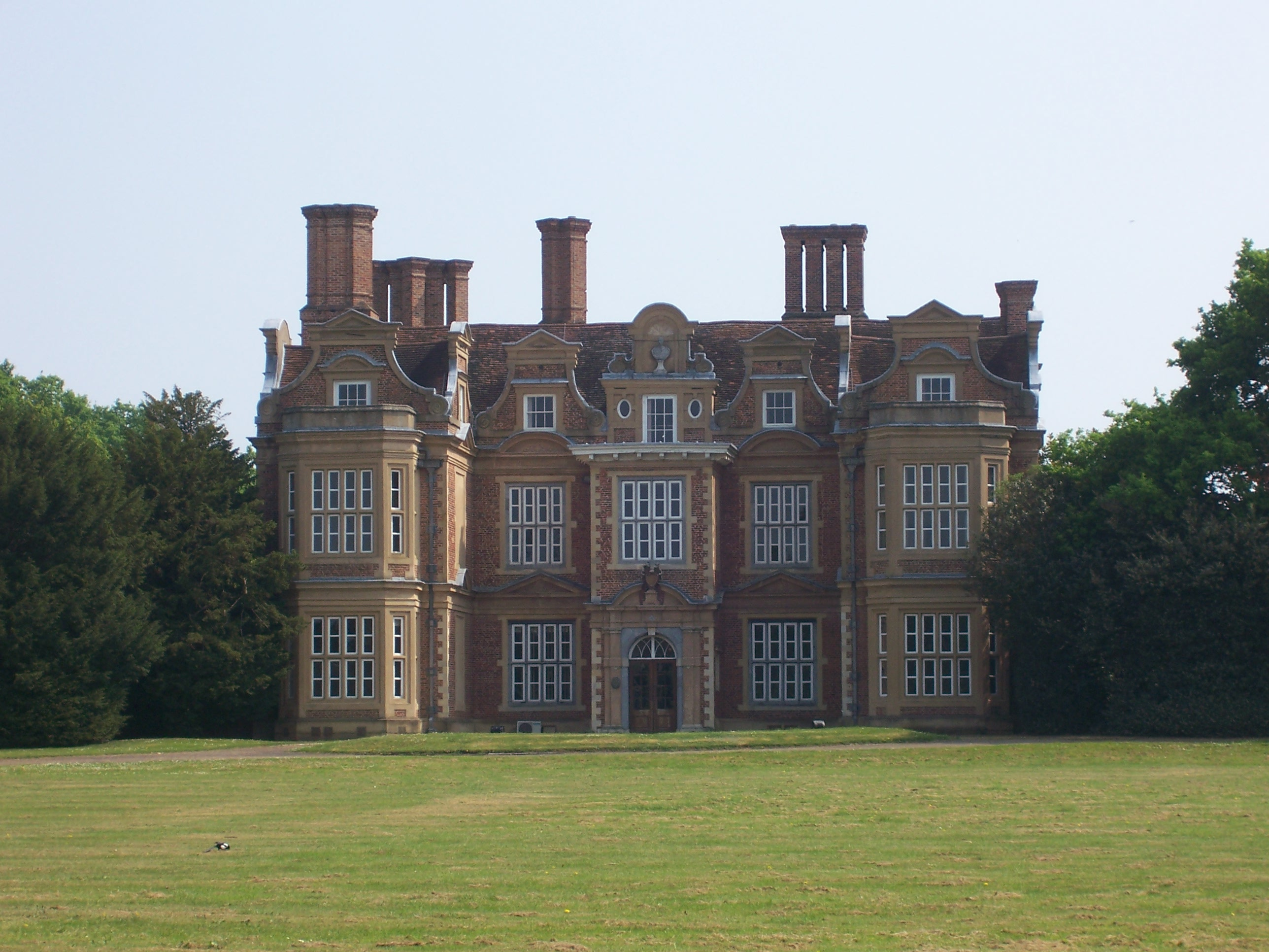 Swakeleys House in Ickenham.